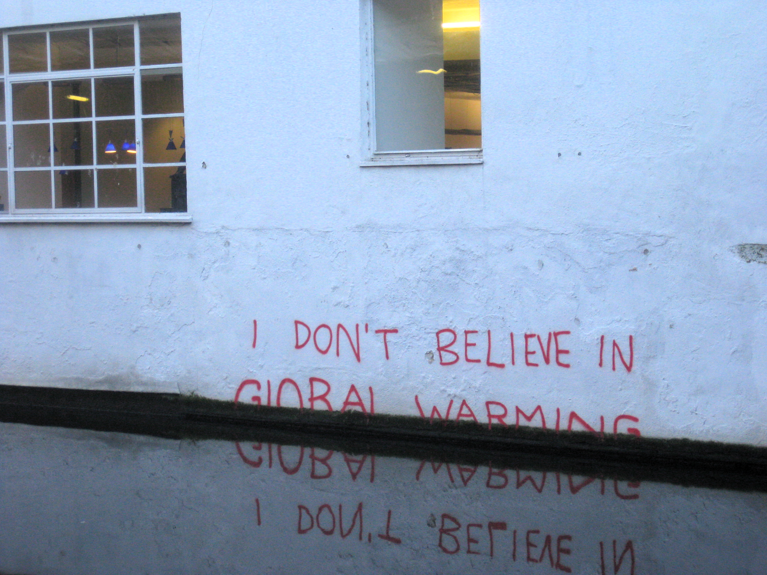 Graffity in London probably made by Banksy